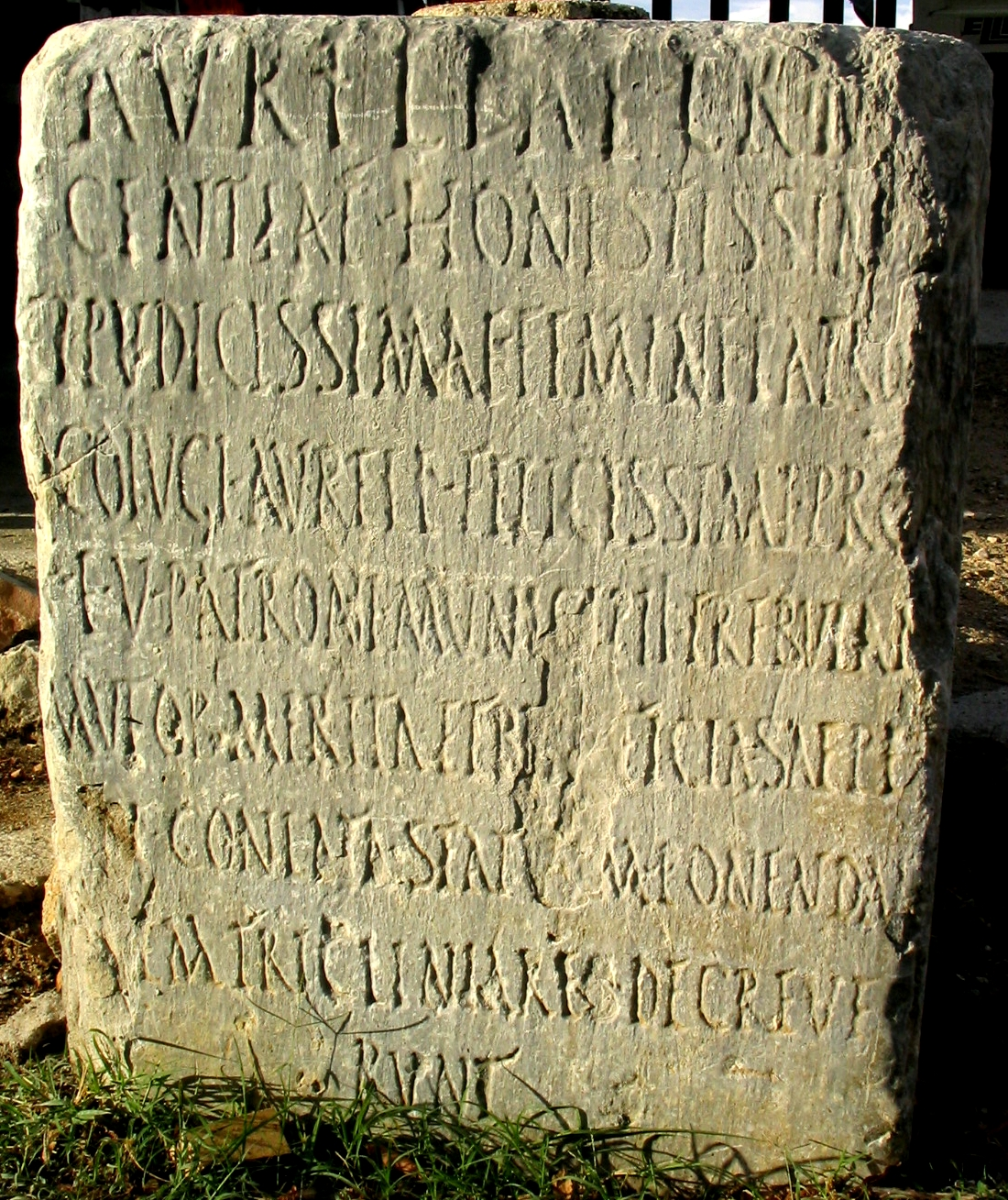 A Latin inscription set up by the road leading into Monteleone Sabino (RI), Italy from ancient Trebula Mutuesca. The text is CIL IX, 4894, but the last 3 lines are now apparently buried. "To Aurelia Crescentia, most honorable and chaste woman, patroness, wife of the equestrian Aurelius Felicissimus Proximus, patron of the municipium of Trebula Mutuesca, on account of her merit and frequent devoting of herself to beneficence, the same tricliniares (a dining room) decreed that a statue be erected, dedicated on her birthday, 17 days before the Kalends of February (January 29), when Arrianus and Papus were consuls (AD 243). The place given by decree of the decurions."